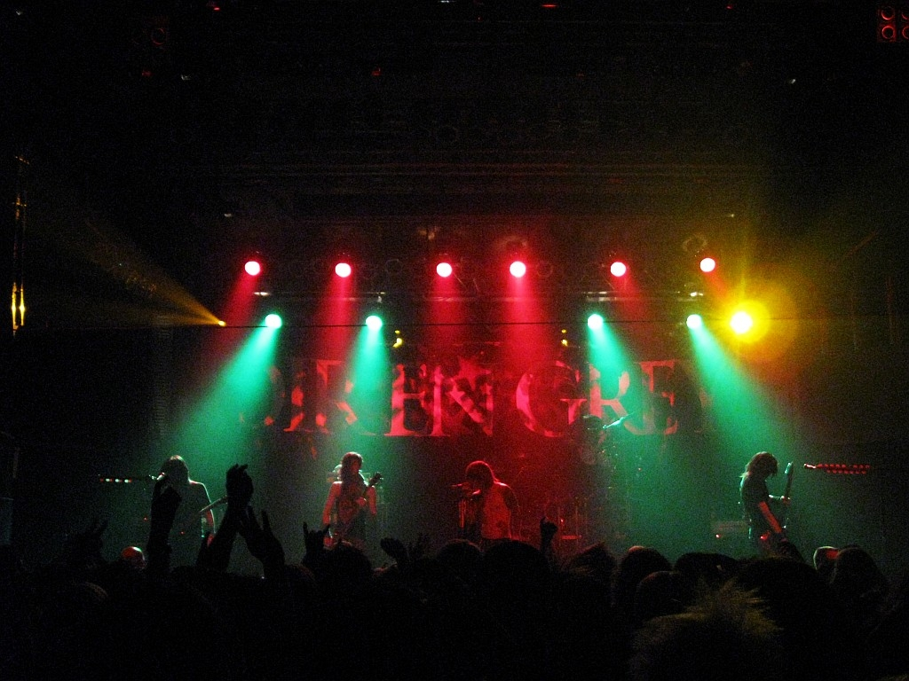 Dir en grey performing in Saarbrücken, Germany.